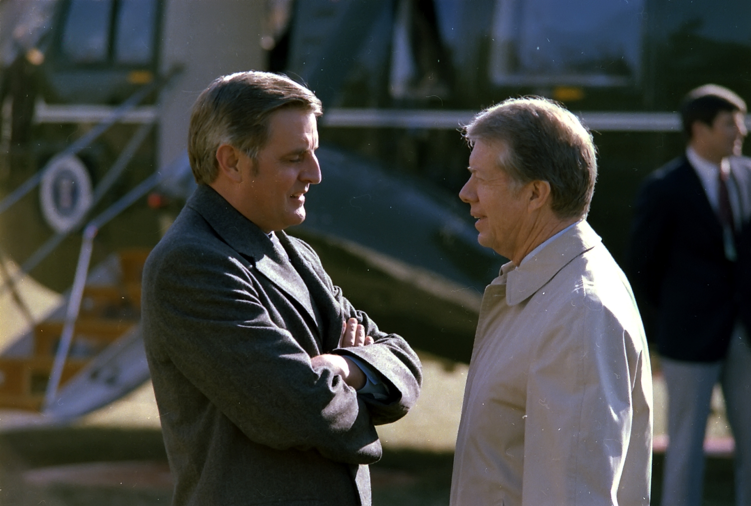 Walter Mondale and Jimmy Carter, in front of Presidential helicopter Marine One in January 1979. Creator: President (1977-1981 : Carter). White House Staff Photographers. (01/20/1977 - 01/20/1981) ( Most Recent) Type of Archival Materials: Photographs and other Graphic Materials Level of Description: Item from Collection JC-WHSP: Carter White House Photographs Collection, 01/20/1977 - 01/22/1981 Location: Jimmy Carter Library (NLJC), 441 Freedom Parkway, Atlanta, GA 30307-1498 PHONE: 404-865-7100, FAX: 404-865-7102, Production Date: 01/04/1979 Access Restrictions: Unrestricted Use Restrictions: Unrestricted